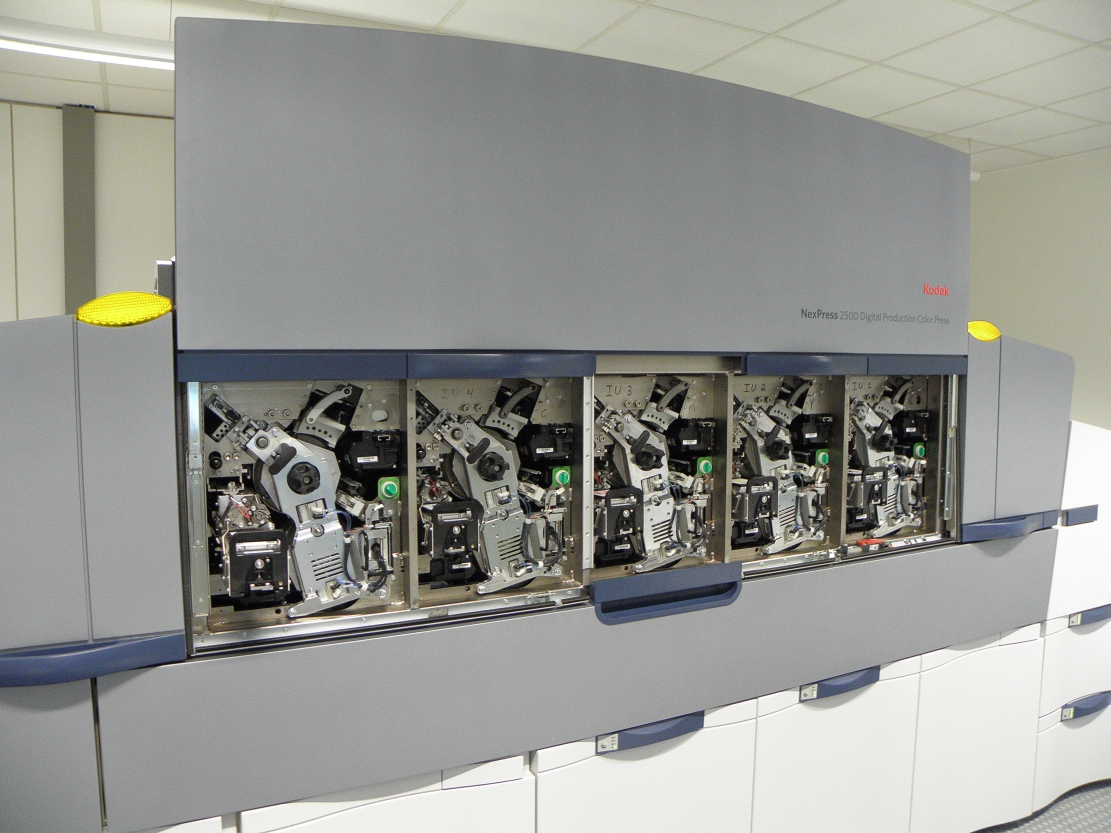 Digital Printing presses